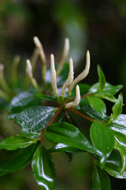 Peperomia inflorescences in Monteverde, Costa Rica. Author: Cody Hinchliff, 2004.